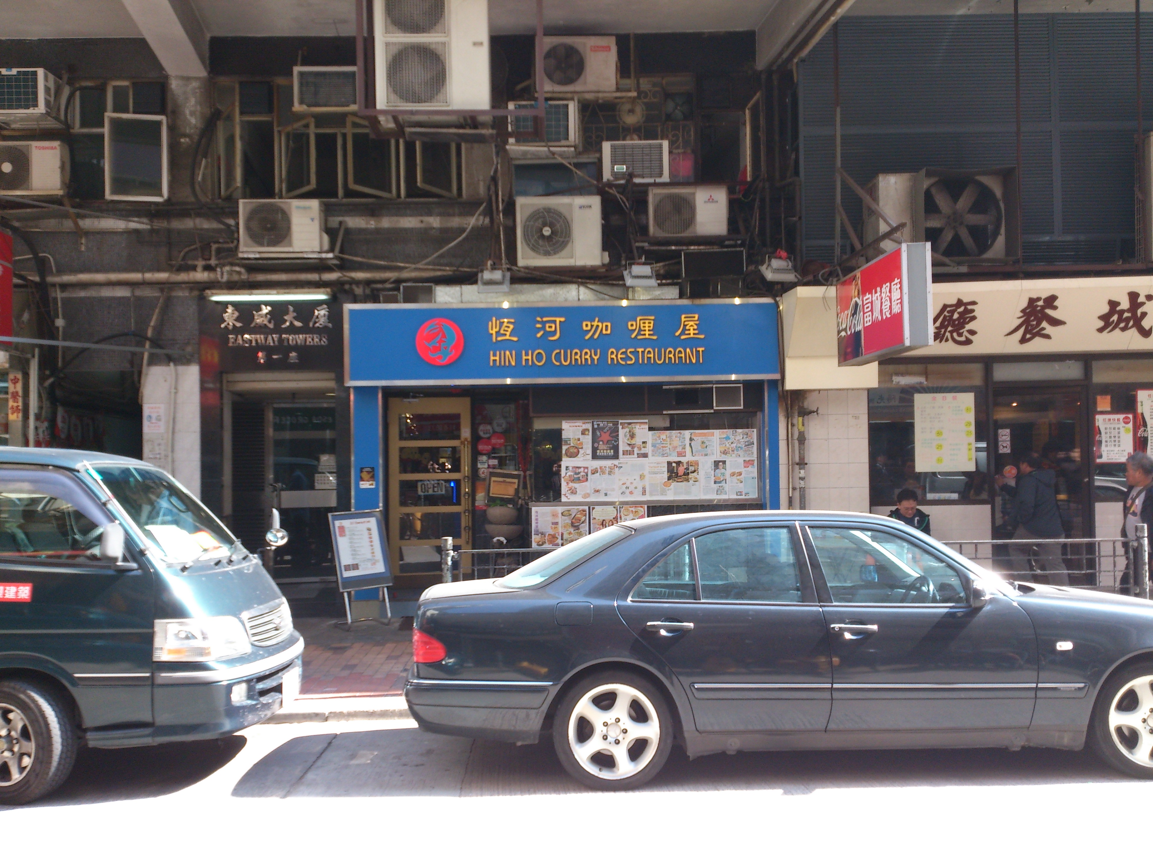 Hin Ho Curry Restaurant